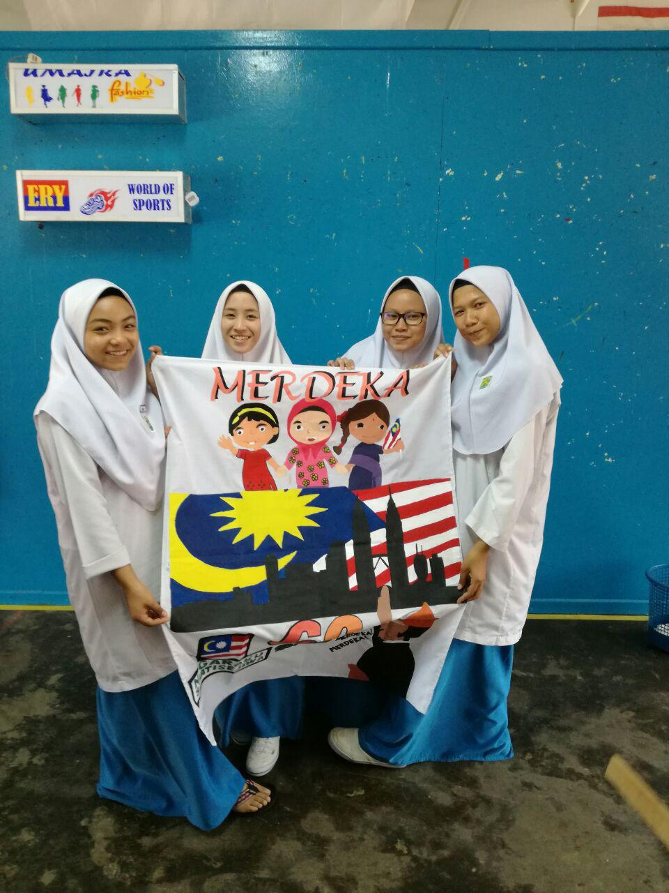 kainrentang2